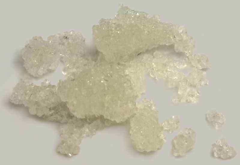 Potassium nitrite KNO2.